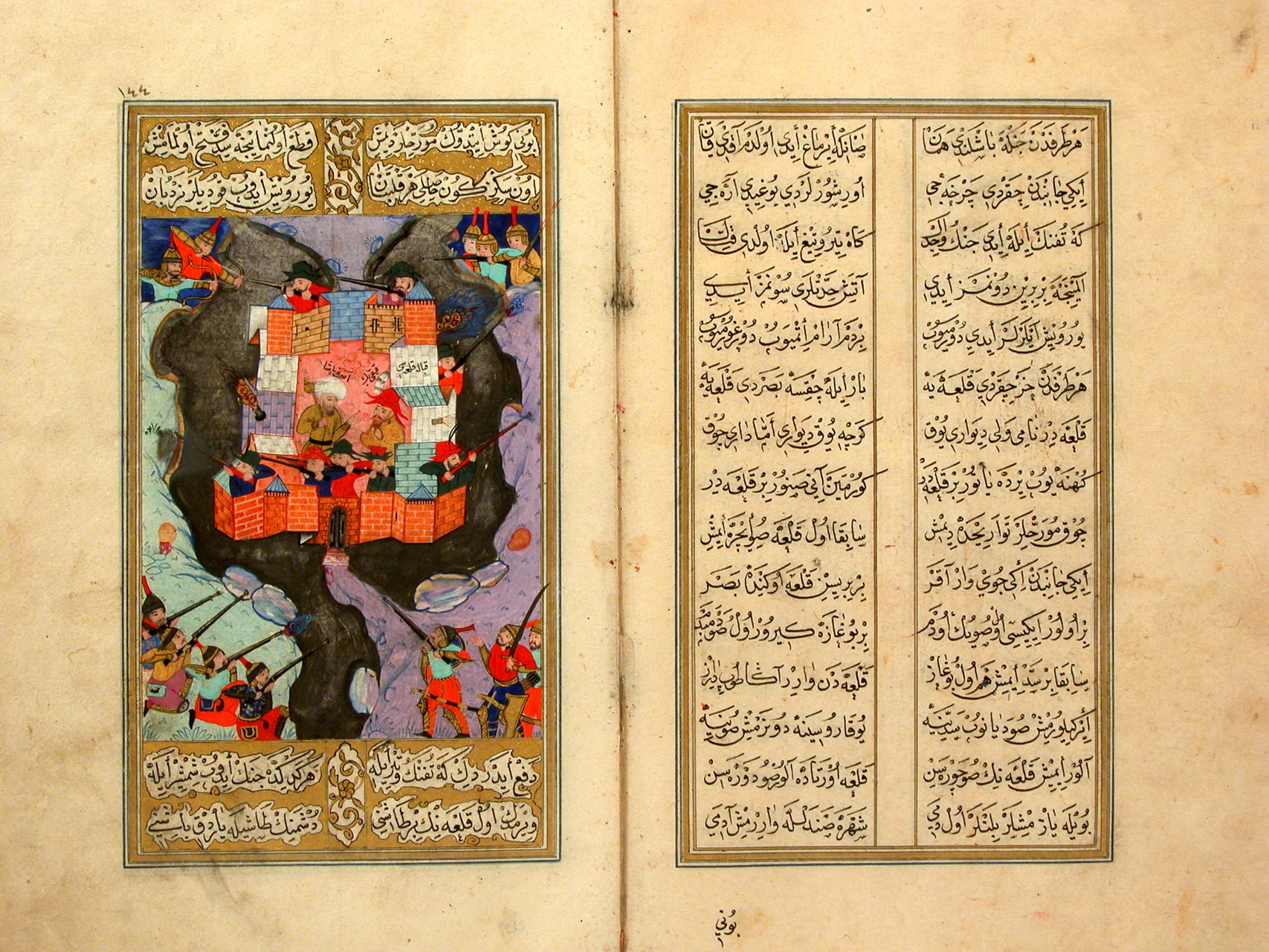 Âsafi and Kaykı Bey in the Qabala Castle besieged by the Safavids. Şecâ‘atnâme, 145a